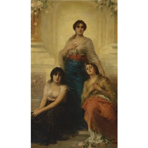 Three beauties